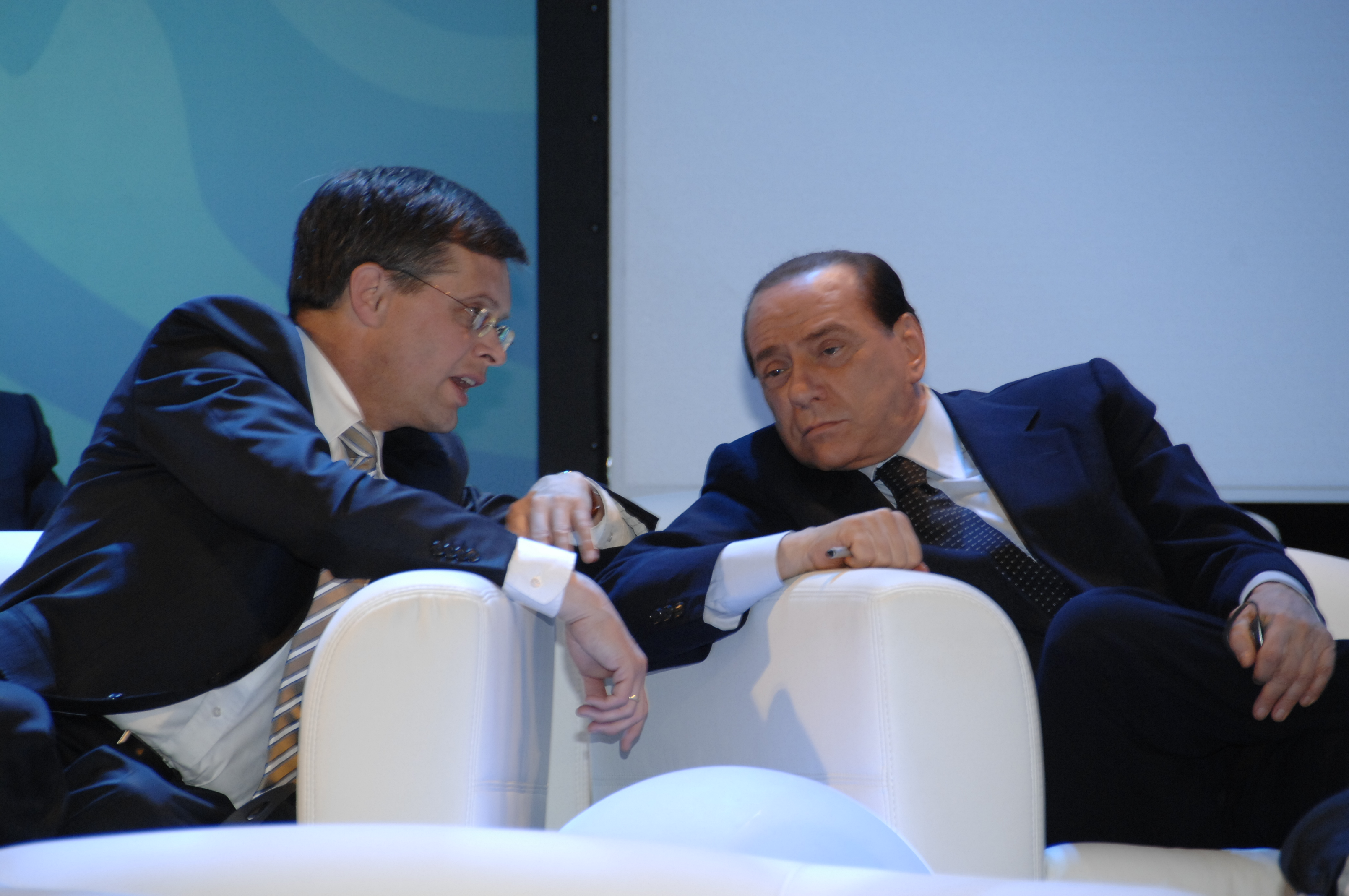 EPP Congress Warsaw